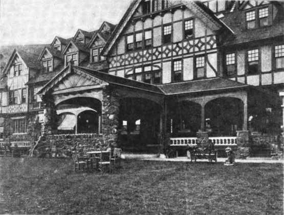 The Briarcliff Lodge in Briarcliff Manor, New York, United States.